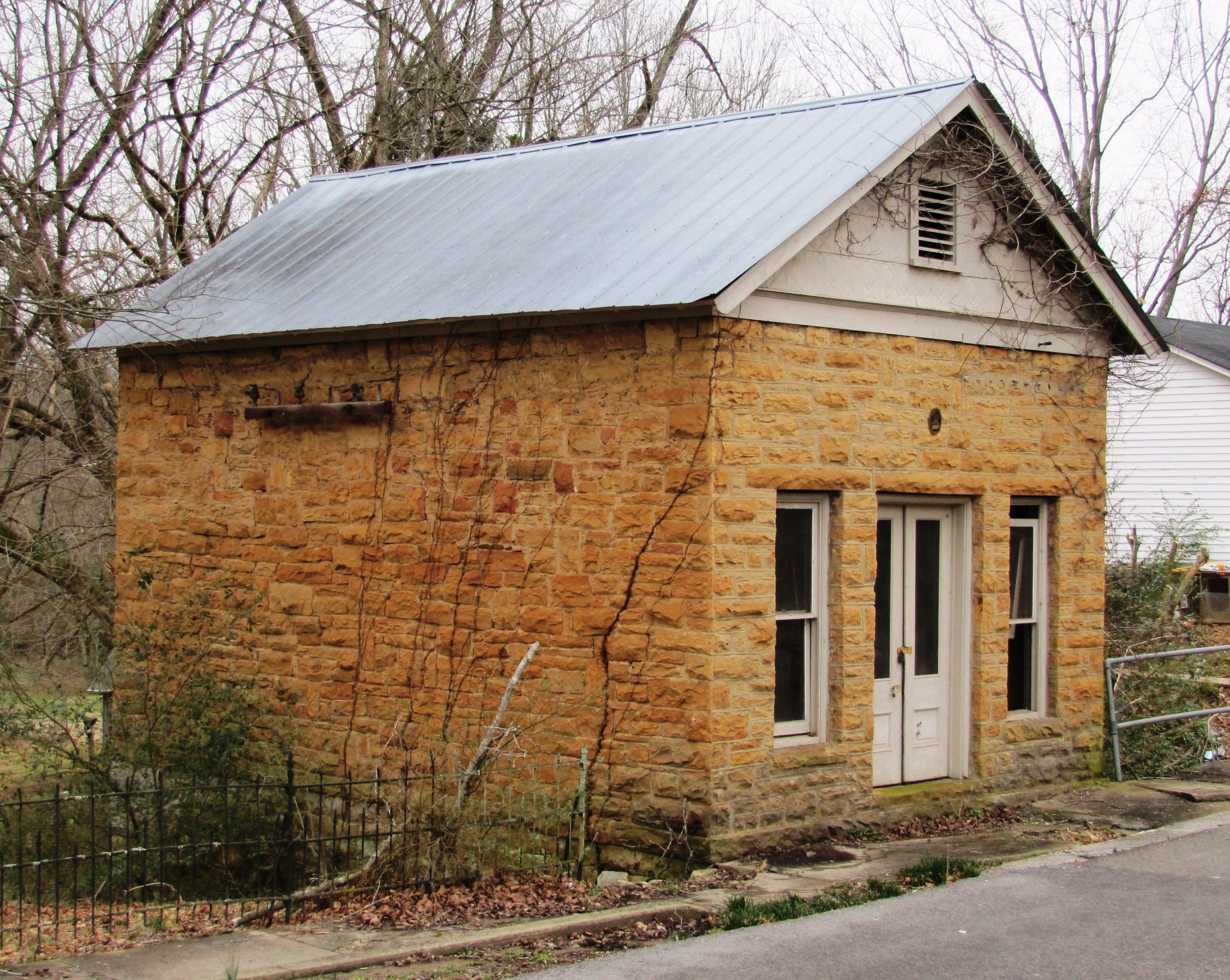 The NRHP-listed Sparta Electric Building in Sparta, Tennessee, USA.